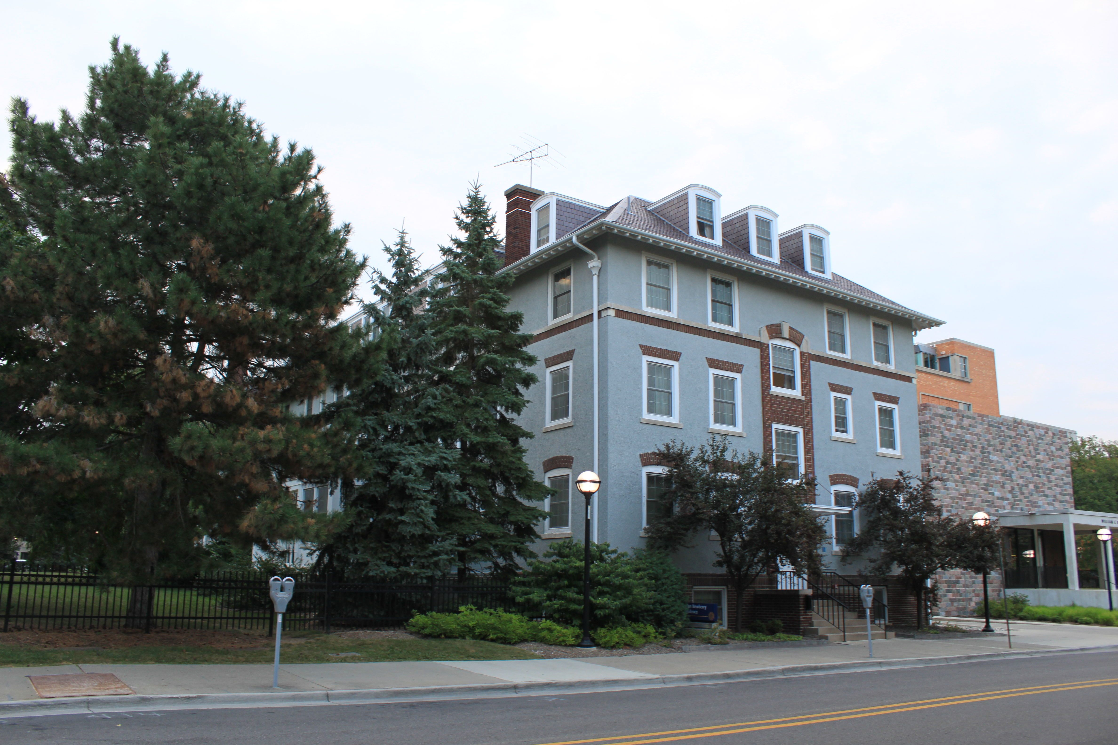 Helen Newberry House, University of Michigan, 432 South State Street, Ann Arbor, Michigan